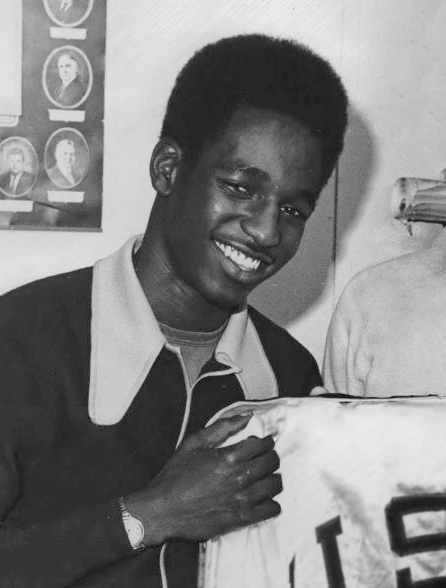 Press Photo Coach Joe Clough and Ray Seales - orc06695